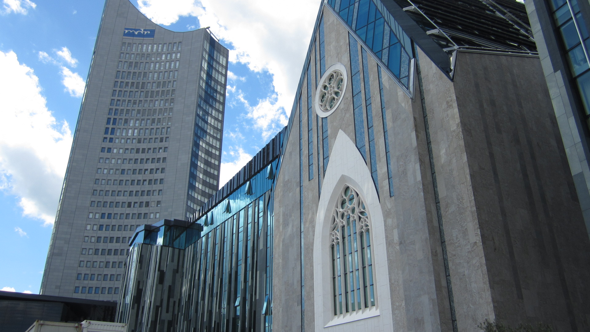 The construction site of the Paulinum – Aula und Universitätskirche St. Pauli (Auditorium and University Church St. Pauli) of Leipzig University in July 2012. The New Augusteum and the City-Hochhaus (skyscraper) can be seen in the background.